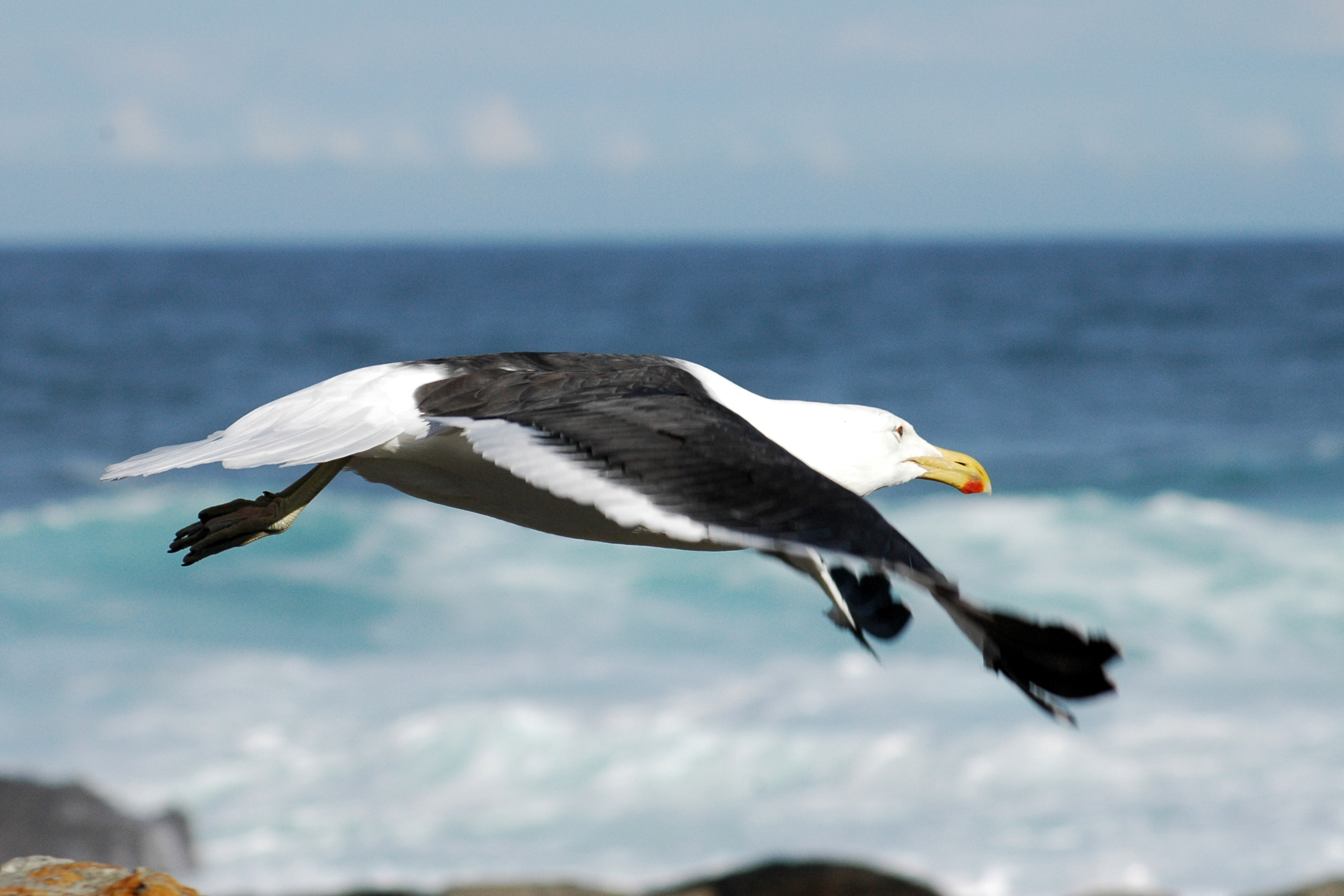 A Kelp Gull in Nature's Valley, Western Cape, South Africa